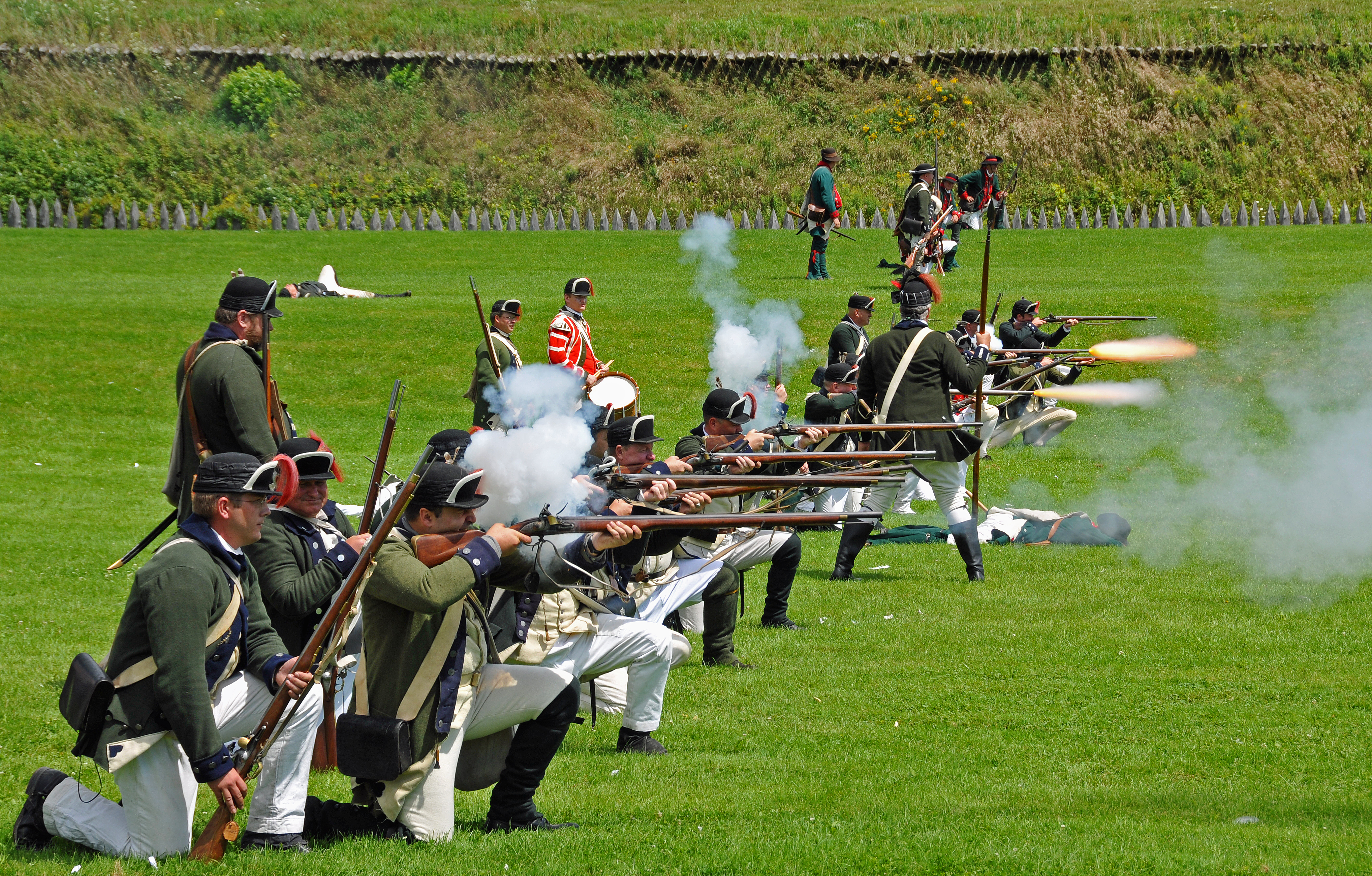 The British soldiers were starting to die on the battlefield and not long after this the drummer sounded the retreat. In the real battles in this area the Americans lost but this all for fun. Fort Wellington, Prescott, Ontario, Canada This is my last picture of the re-enactment, hope you enjoyed it.